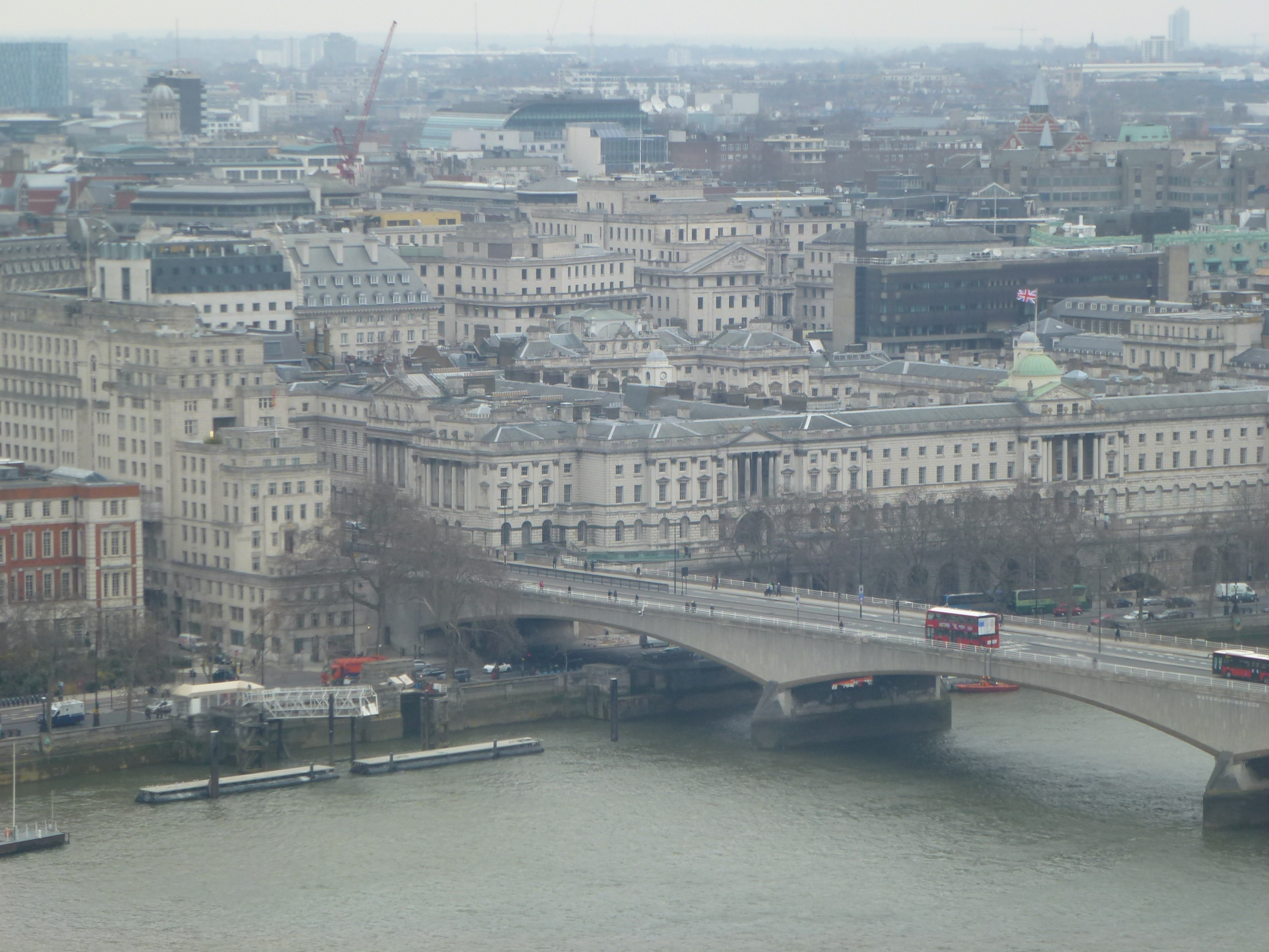 And a nice view of Waterloo Bridge, the River Thames and the Embankment which runs alongside the Thames.